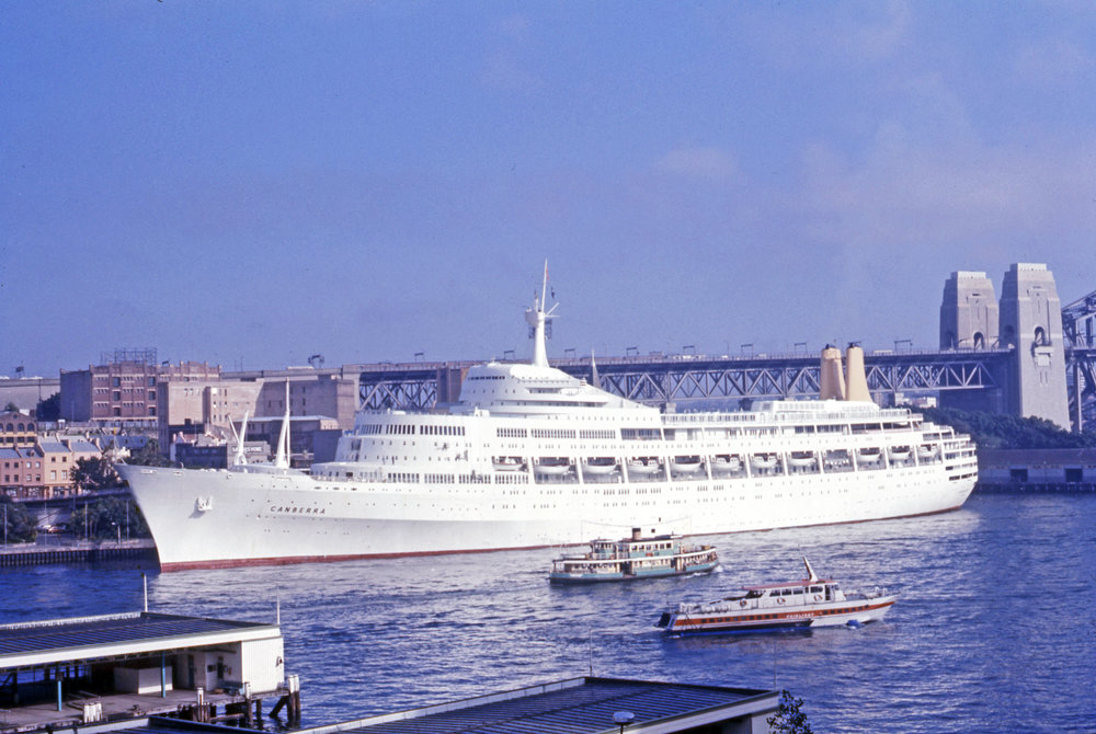 P & O Liner Canberra & Sydney ferry LADY EDELINE & Hydrofoil FAIRLIGHT at Circular Quay 4 March 1974. John Ward, John Ward Collection - Shipping (04/03/1974), [A-01076282]. City of Sydney Archives, accessed 20 May 2020